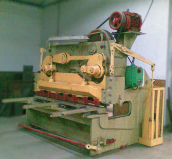 hydraulic guillotine shear